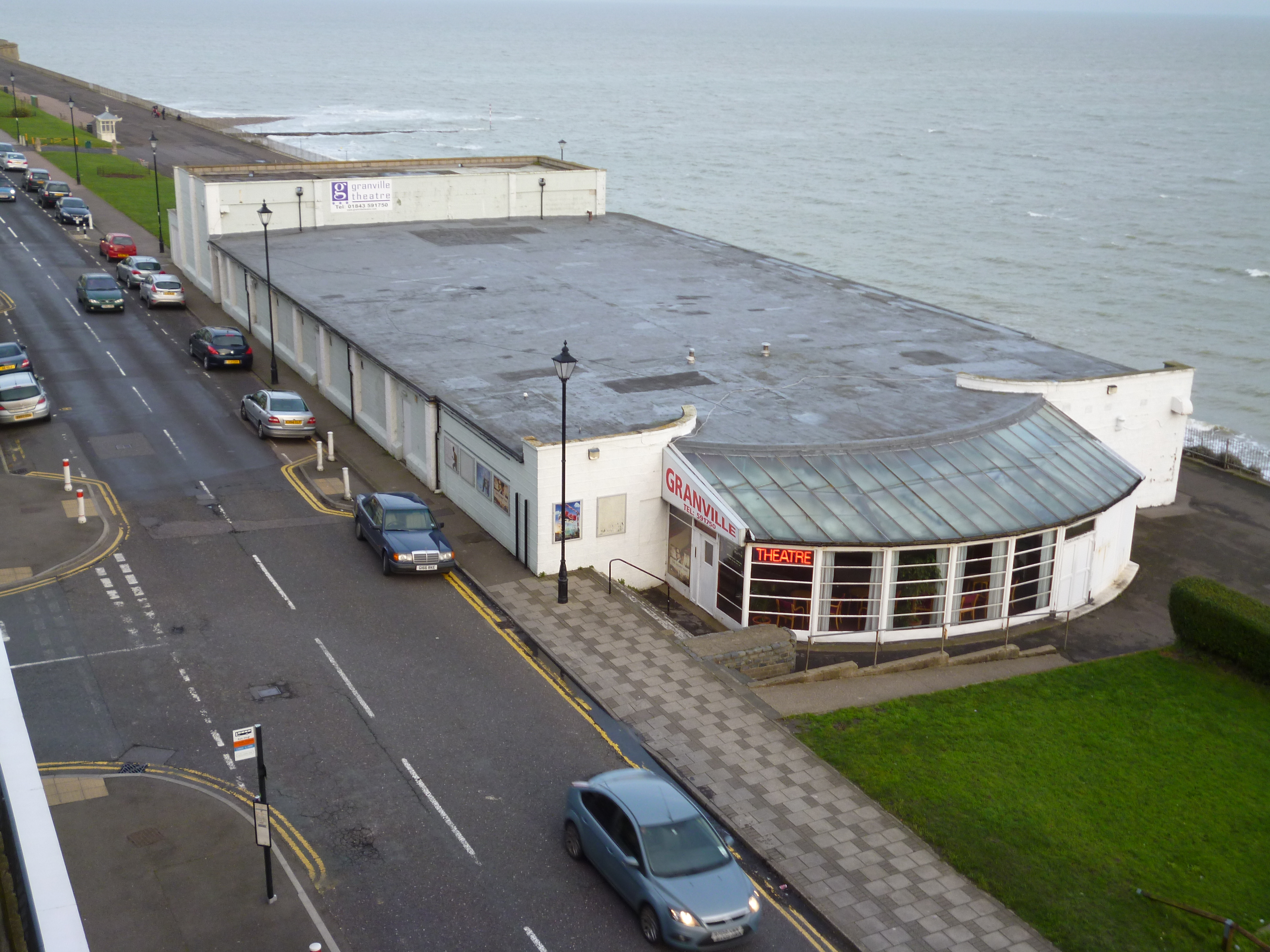 Taken 18th January 2014